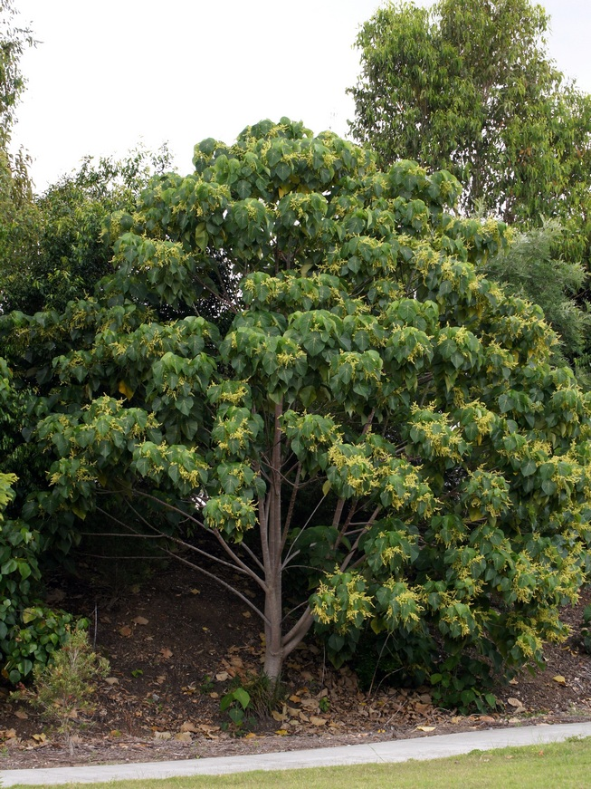 Macaranga tanarius Common names: Macaranga, Nasturtium Tree, Blush Macaranga, Parasol Leaf Tree, Elaphant's Ear. FAMILY: Euphorbiaceae Australian plant with heart-shaped peltate leaves to 30 cm diameter. This popular landscaping plant can grow as a spreading shade tree to 7m, sheltering underlying vegetation from the searing sun. The plant has a medical use They say, the flower essence is for women who confuse service with love, and for being over-sensitive to criticism. How is that!!?! Distribution: Australia (Qld, NSW), Pacific, Tropical Asia.